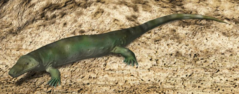 Crop of file in filename